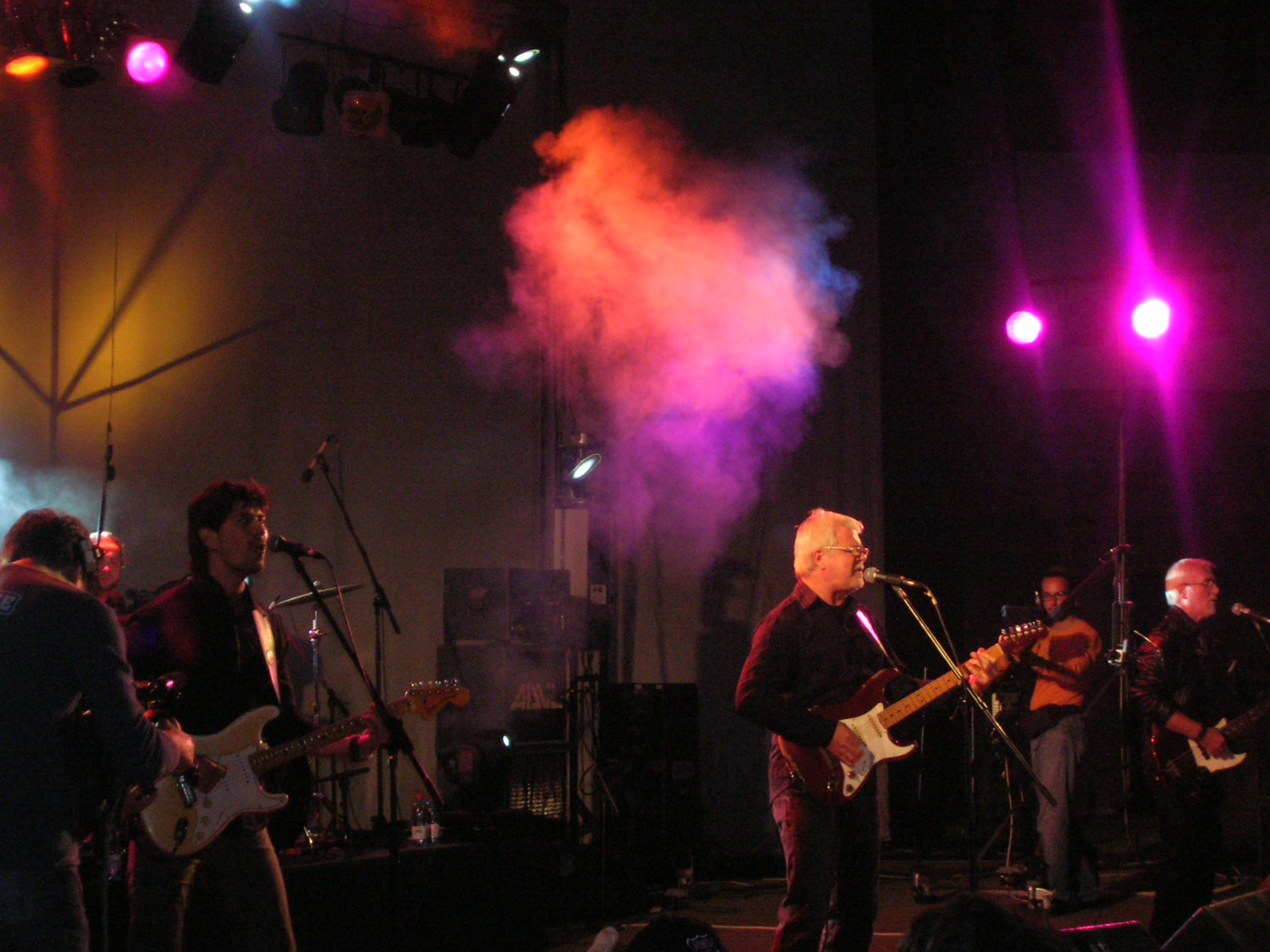 YU Grupa performing live at Nisomnia music festival in 2007